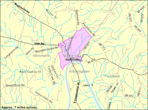 Census Bureau map of Scottsville